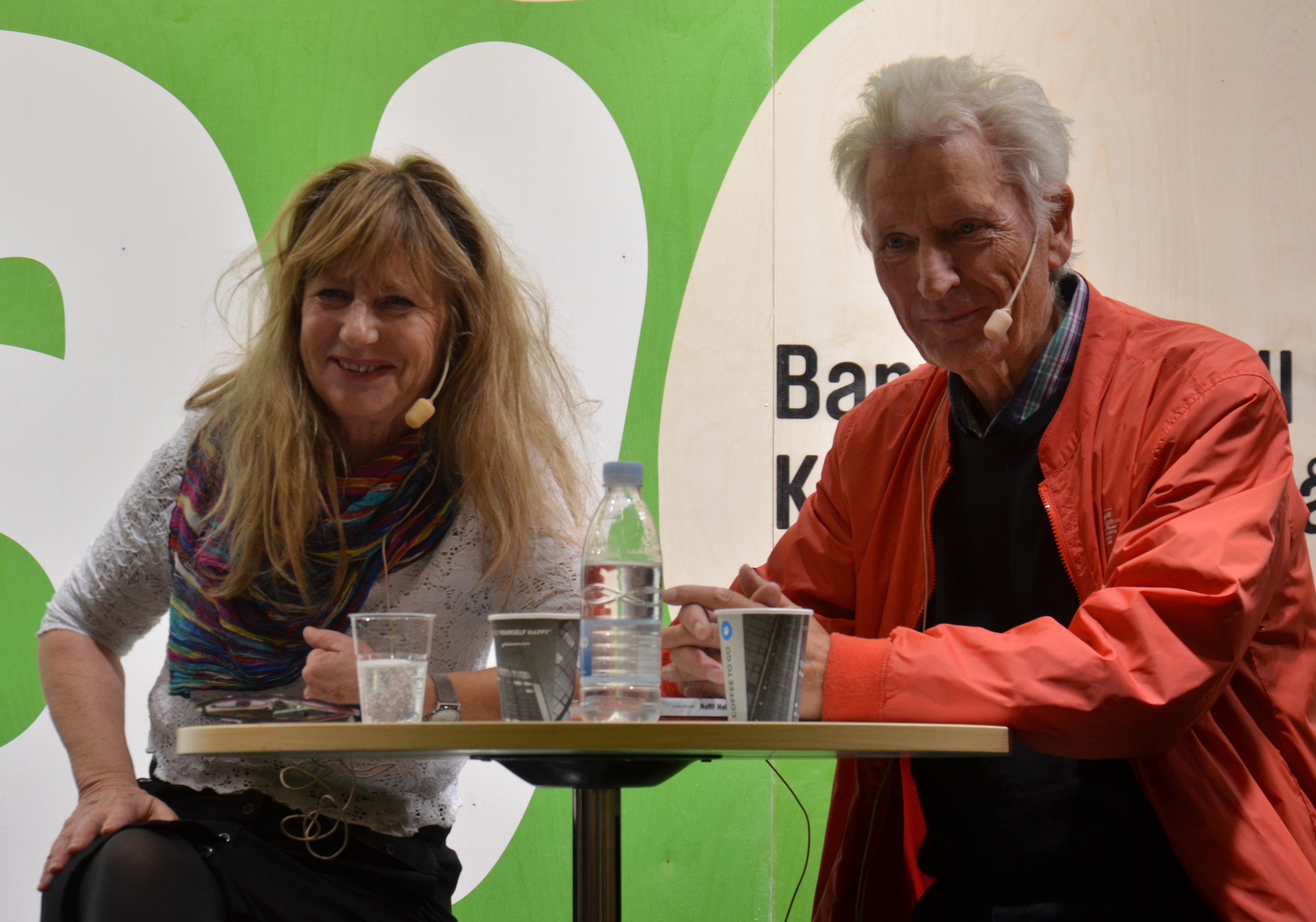 Lilian Brögger och Louis Jensen på Bokmässan i Göteborg 2014